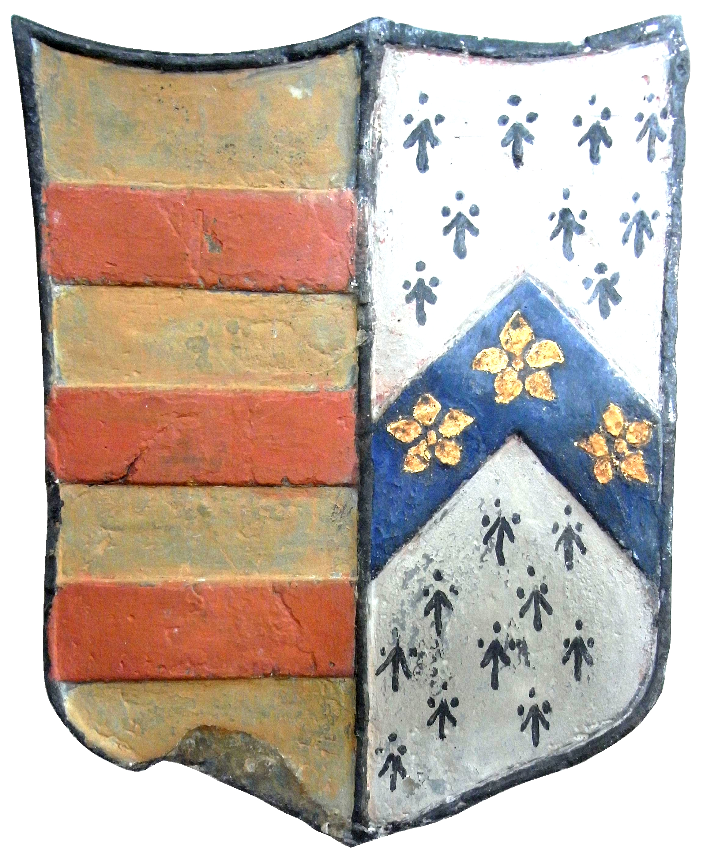 Heraldic escutcheon showing: Or, three bars gules (Berry) impaling Ermine, on a chevron azure three cinquefoils or (Moore of Moorehays, Burlescombe), on mural monument in Molland Church, Devon, erected in 1684 in memory of Rev. Daniel Berry (1609-1654), vicar of Molland cum Knowstone by his son Admiral Sir John Berry (1635-1689)